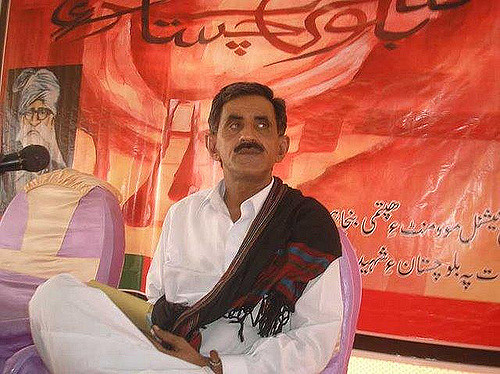 Ghulam Mohammed Baloch, the founding President of the Baloch National Movement. He was assassinated in 2009.